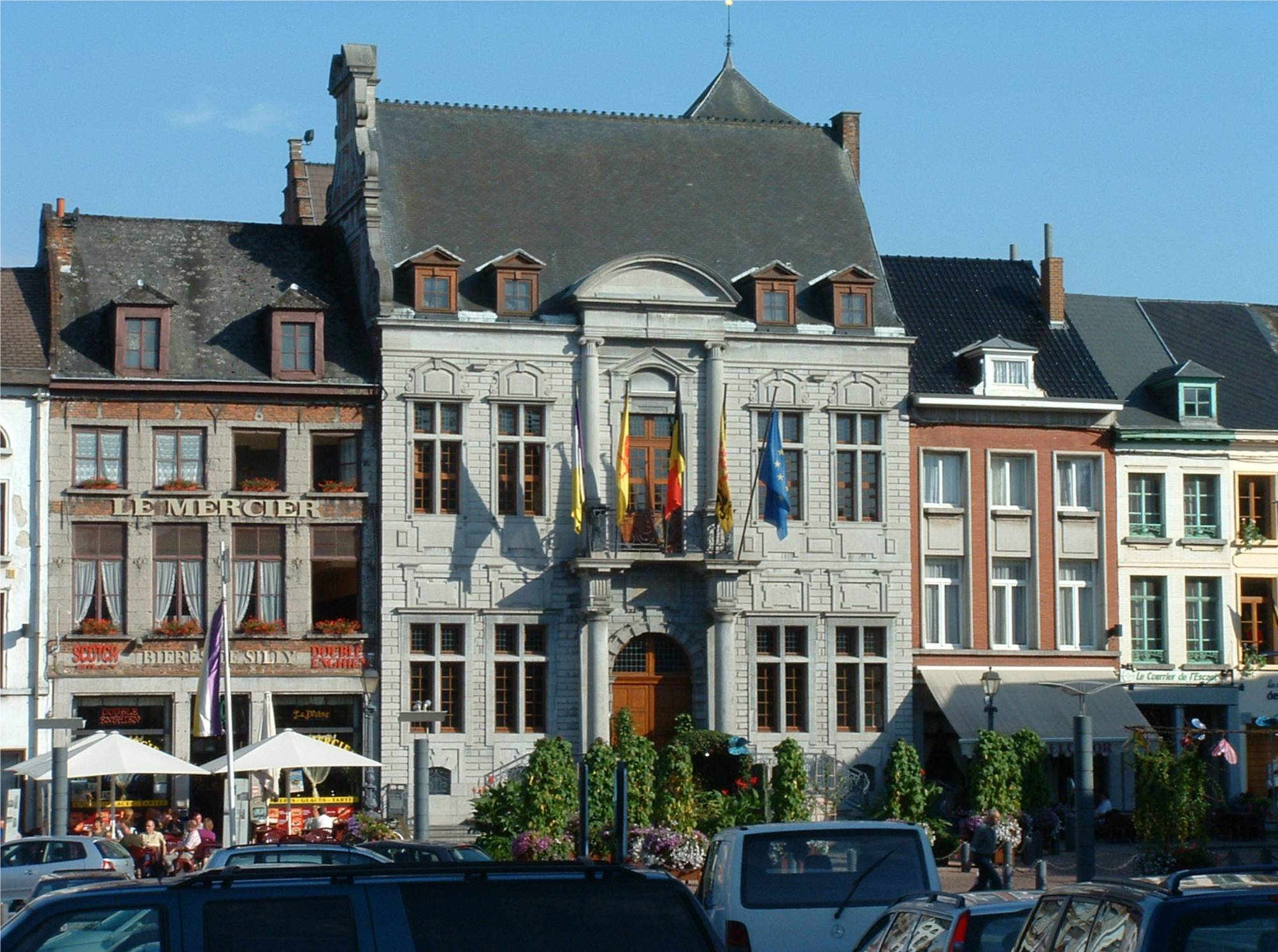 Ath, Belgium: Town hall, architect: Wenceslas Cobergher